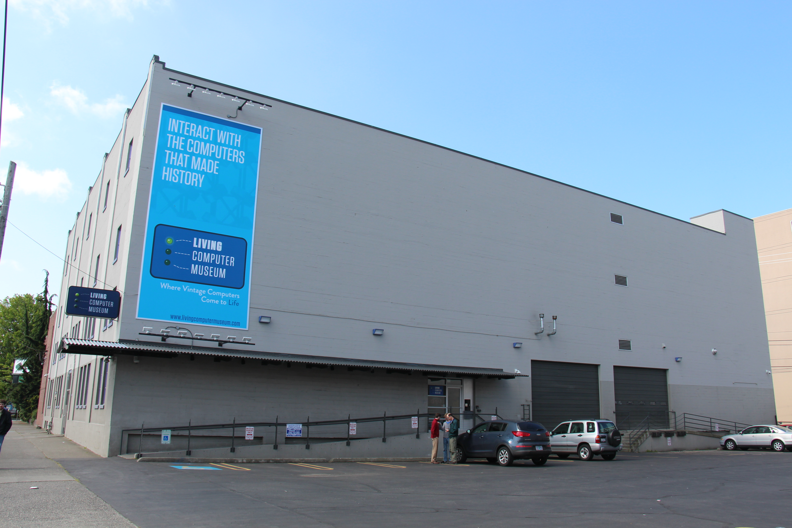 Exterior of the Living Computer Museum at 2245 1st Ave S., Seattle, Washington